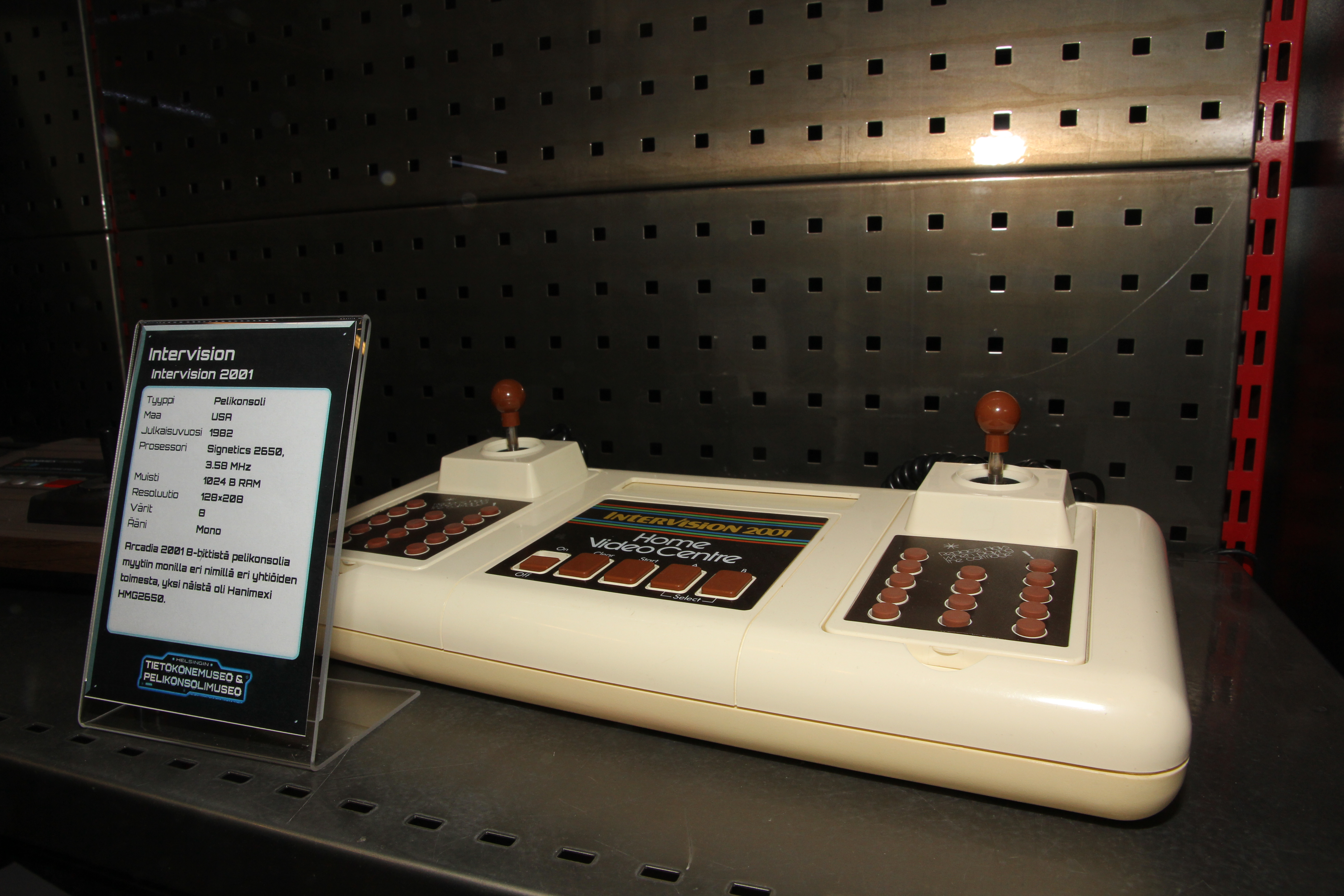 Intervision 2001 game console (Arcadia 2001 clone) in Helsinki Computer and game console museum.